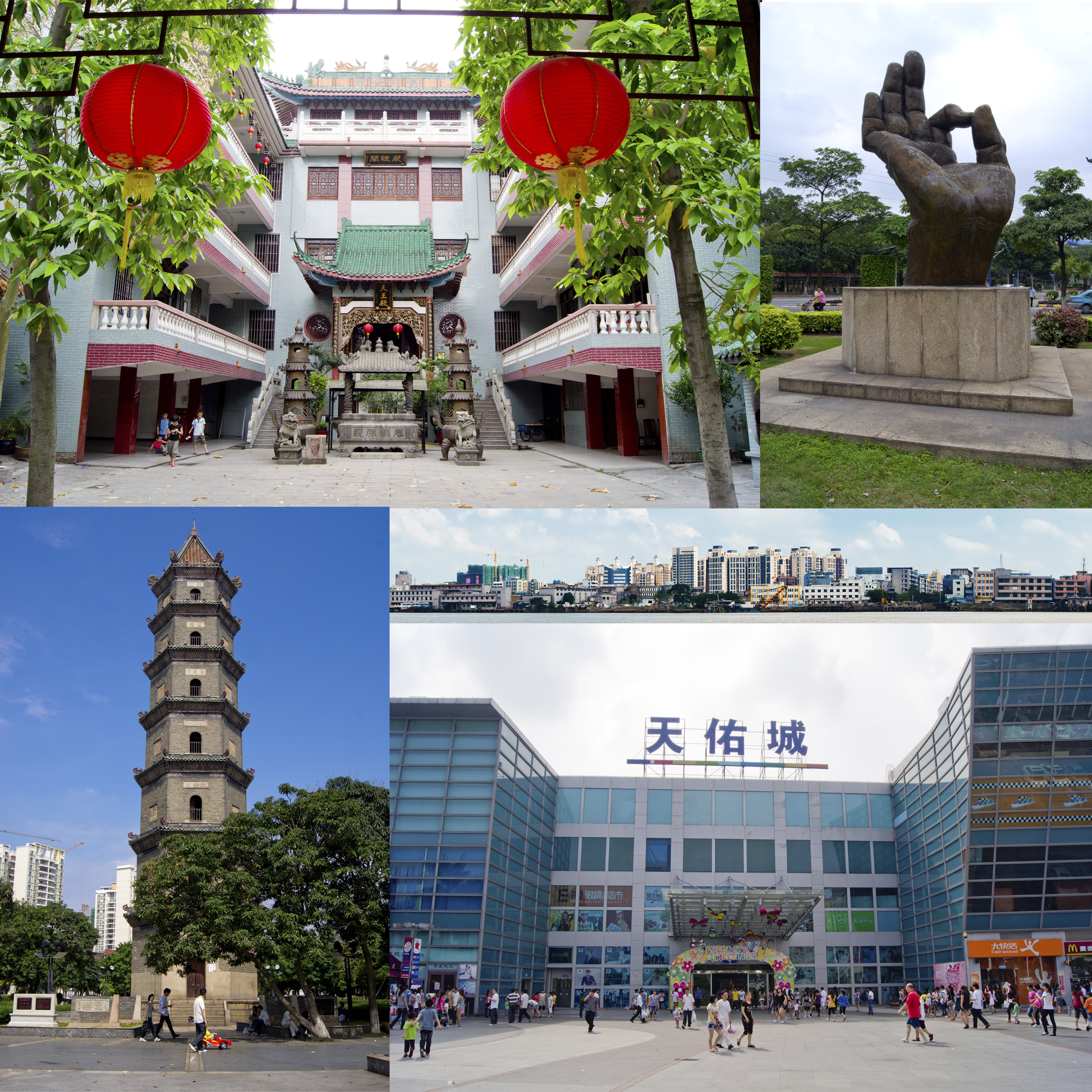 Ronggui Montage